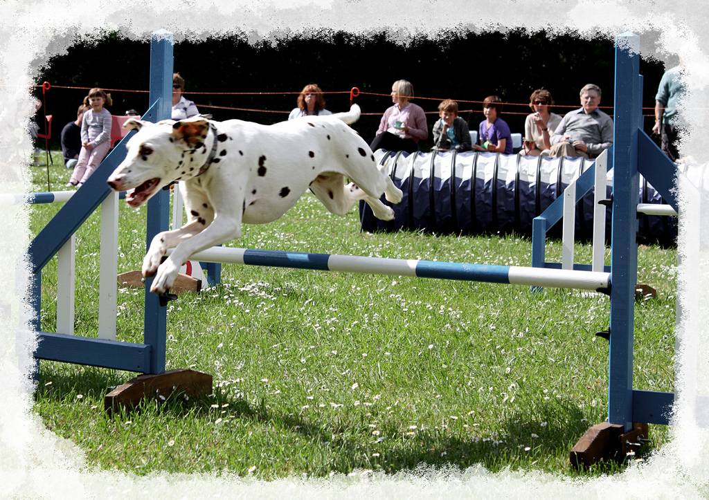 I forget the dog's name, but he's a completely deaf rescued dalmatian, who's been trained for agility using just hand signals. Pretty impressive. The shot is actually blurred. Shutter just wasn't high enough. We live and learn. On this edit i played around with custom brushes. I used a custom brush to get the torn paper effect. I've gotta be honest, it only made the final upload so i could see what it looked like on white ;)